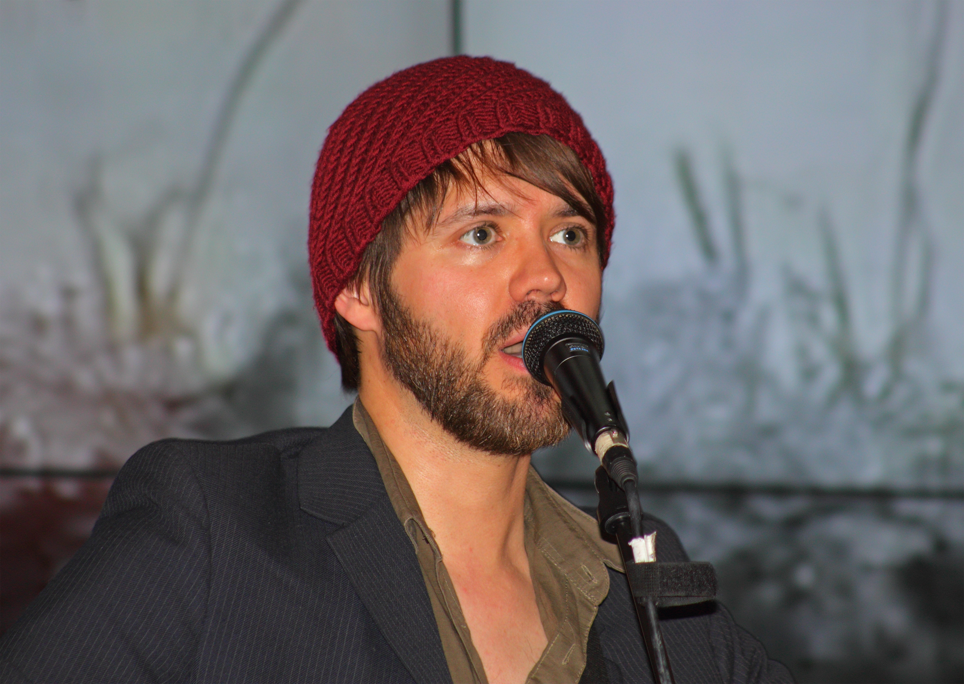 German musician Roland Meyer de Voltaire